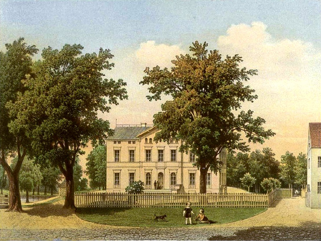 Manor in Jabłonna